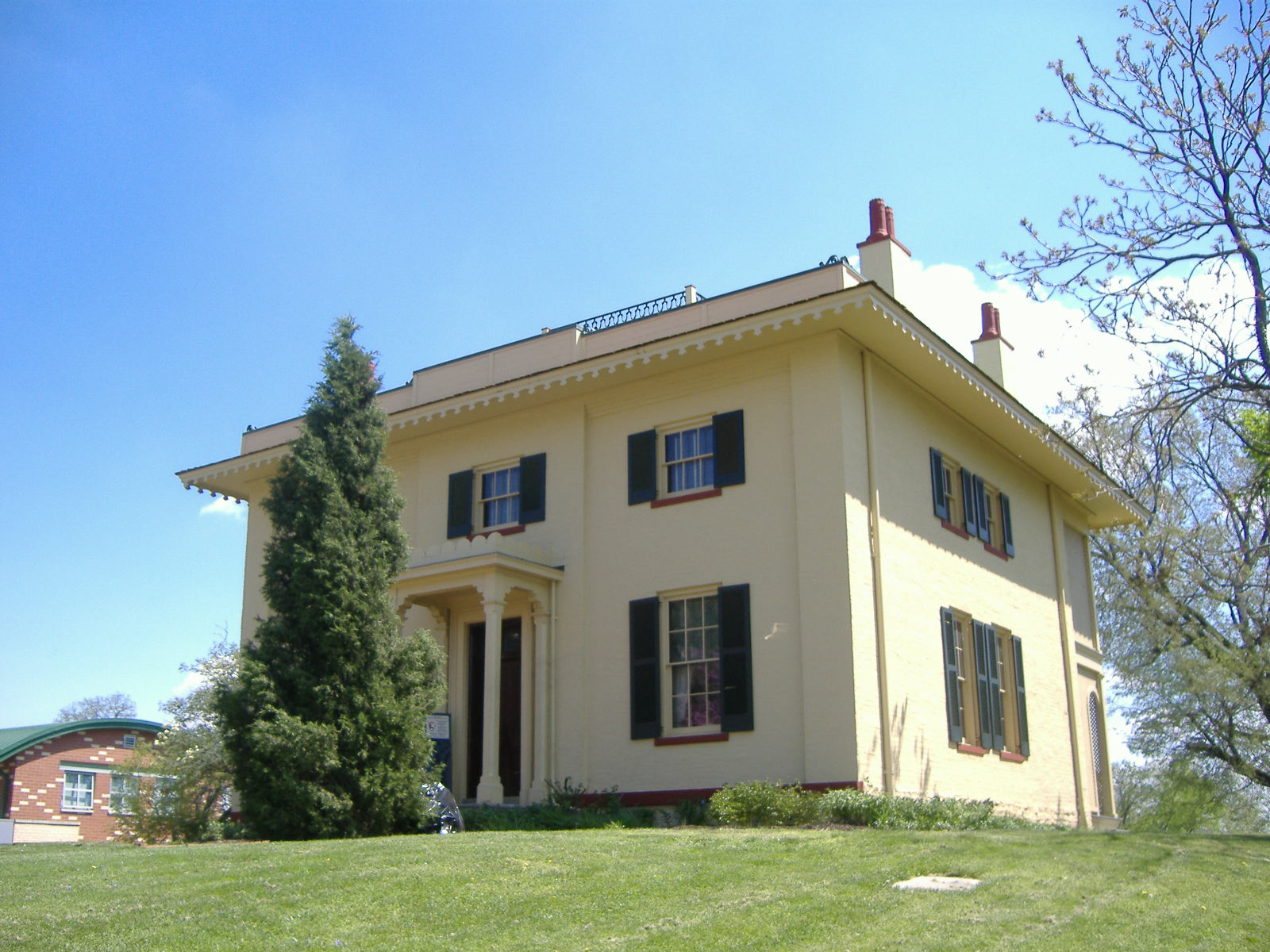 William Howard Taft National Historic Site in Cincinnati